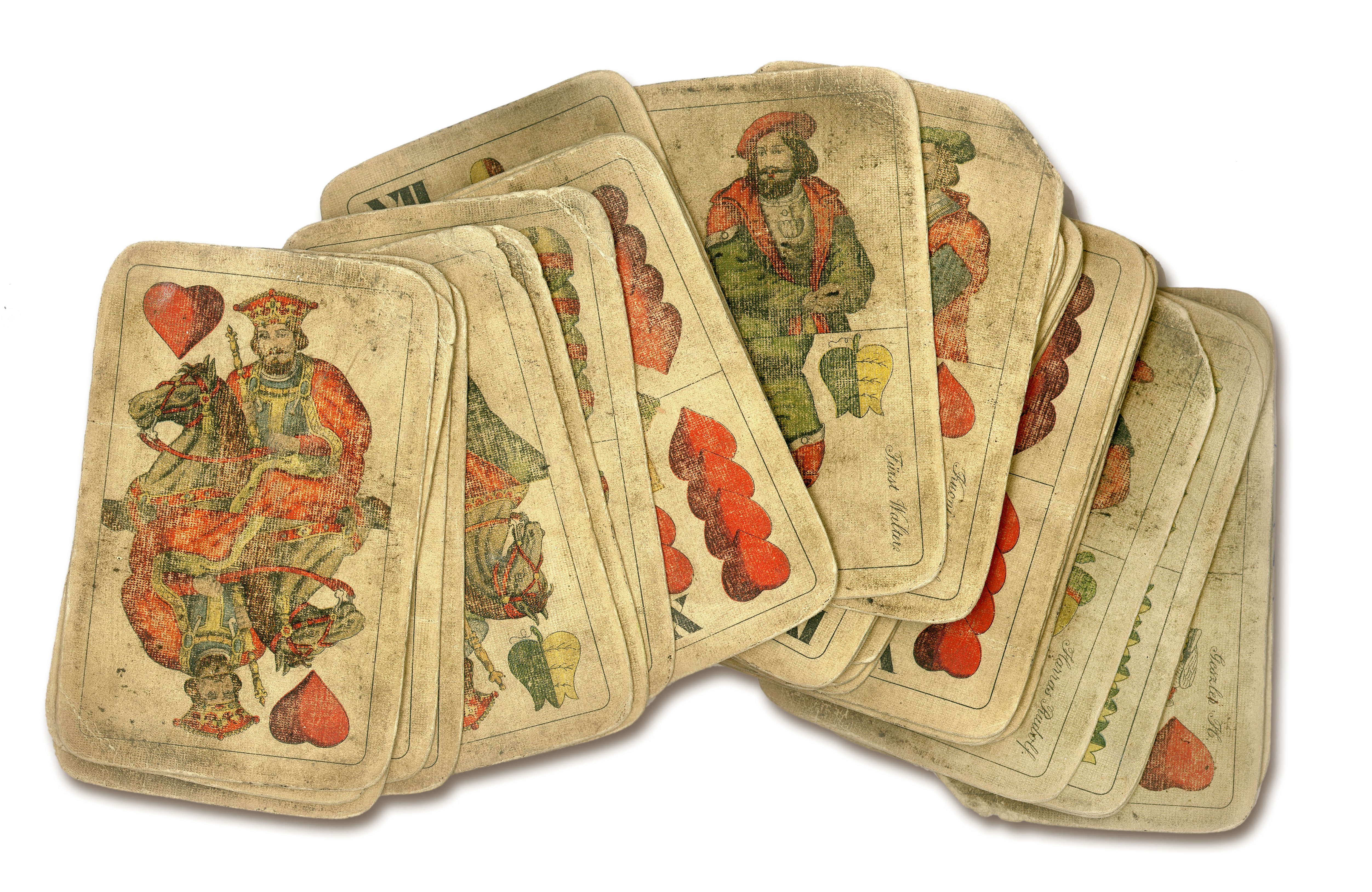 Old playing card used in Hungary in the 1930s. Classic German cards, also commonly known as Hungarian cards. Their edges are round and worn out because of the many games they were used in.